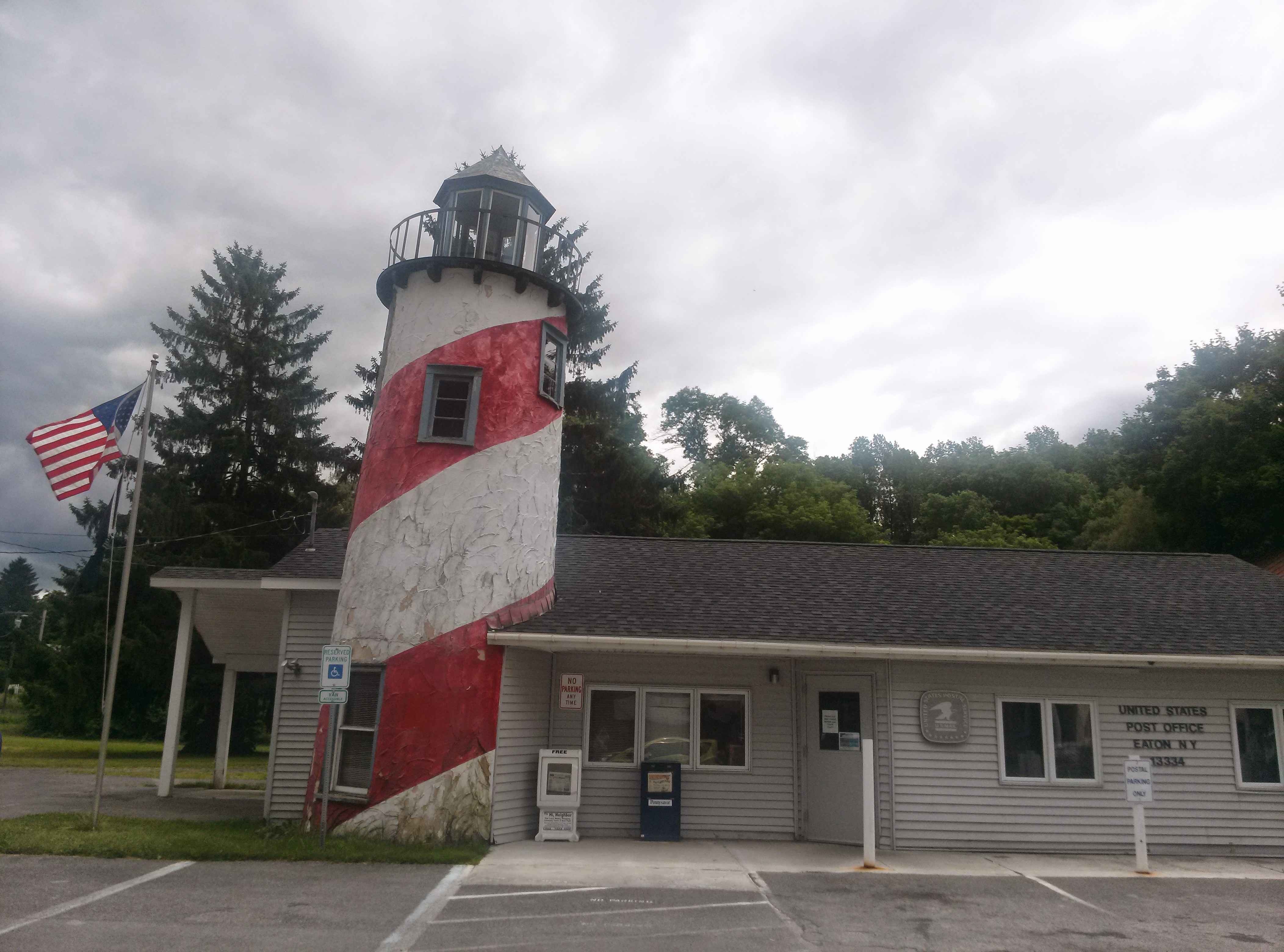 The whimsical design of the Eaton, NY post office (13334) mimics a lighthouse.